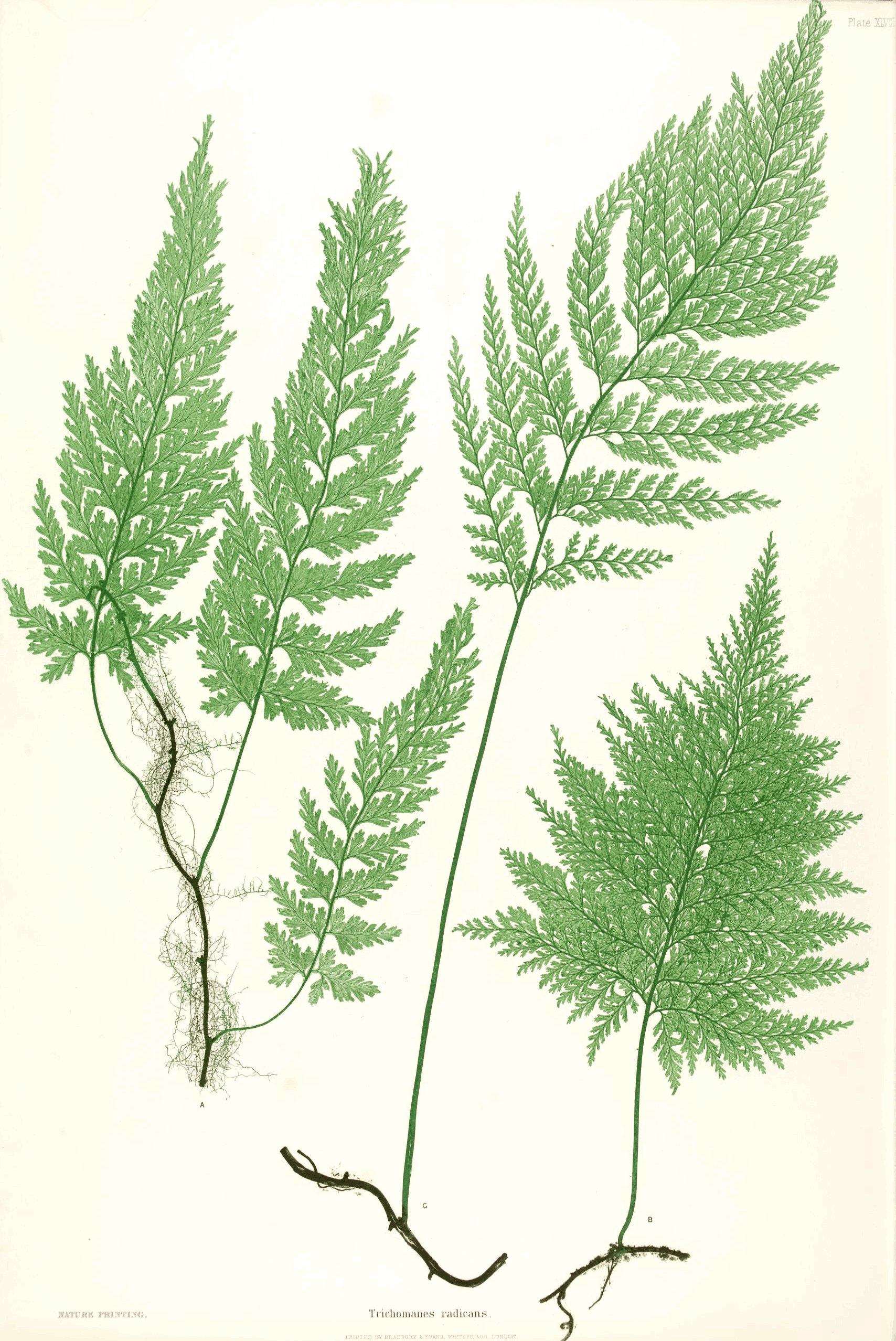 Plate from book